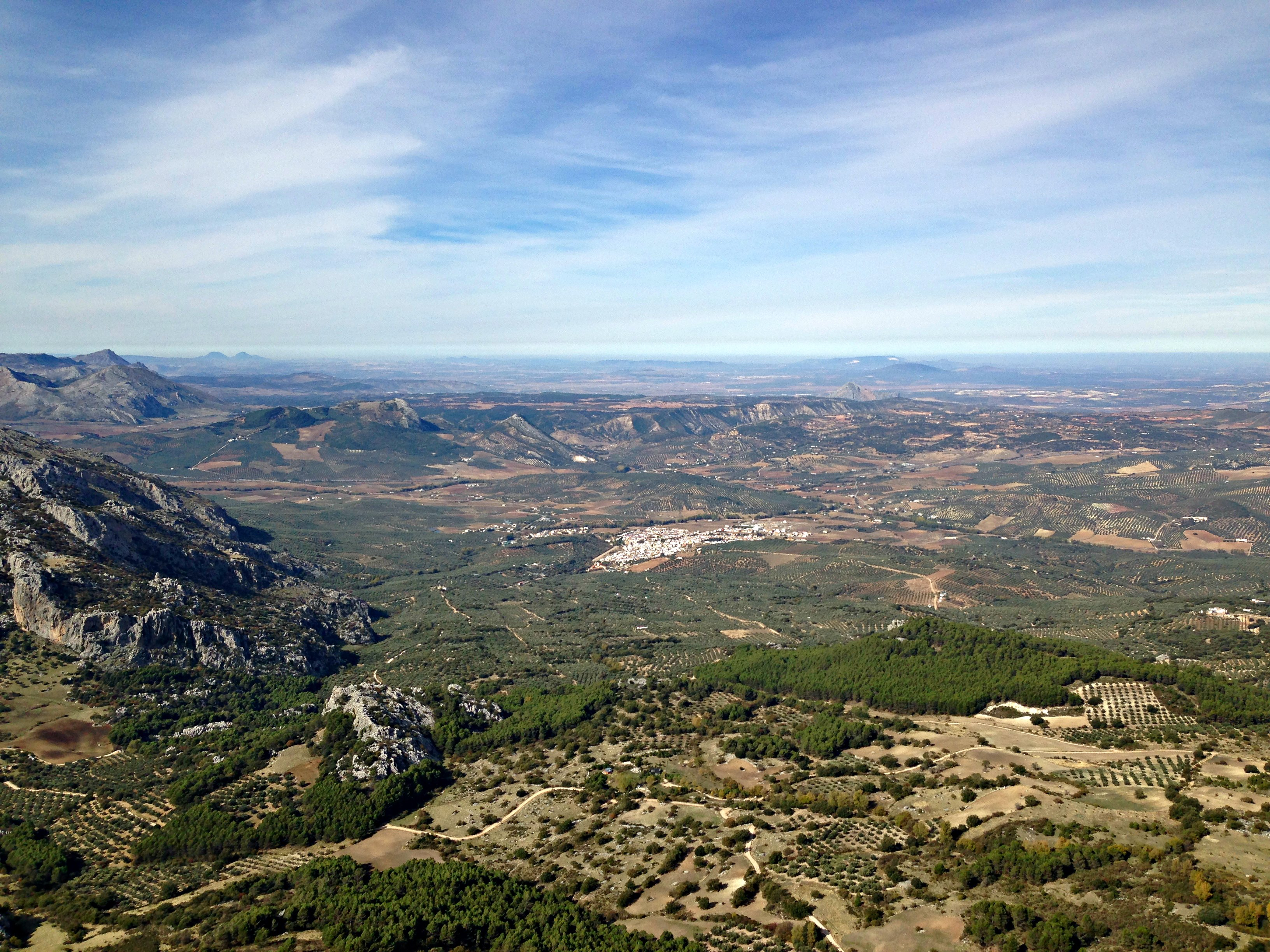 Villanueva del Rosario